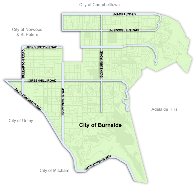 Map showing borders and main roads of the City of Burnside in the Adelaide metropolis, Australia. Original image created by User:Donama, May 2006.